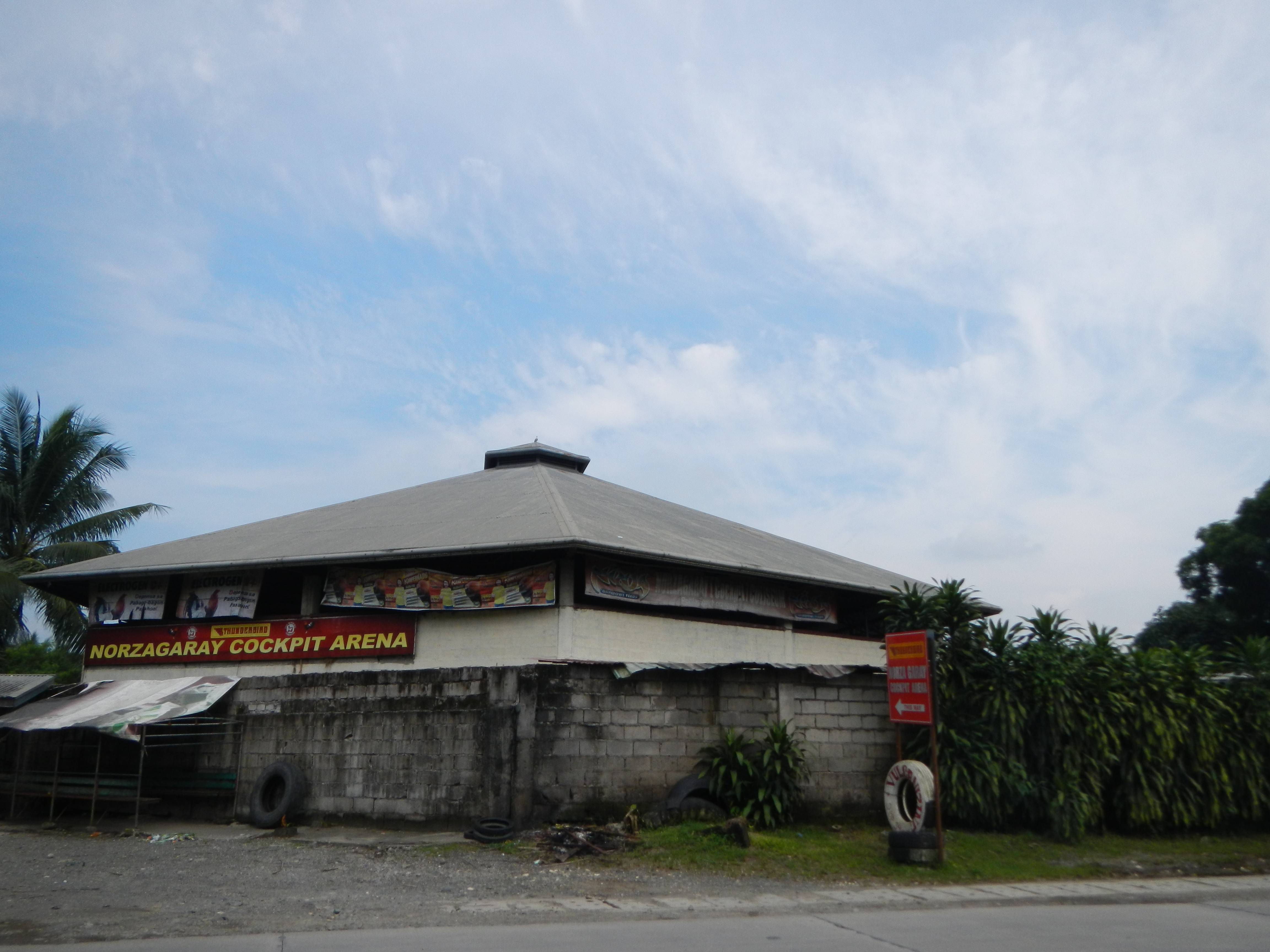 Norzagaray, Bulacan[1] Norzagary Cockpit Arena